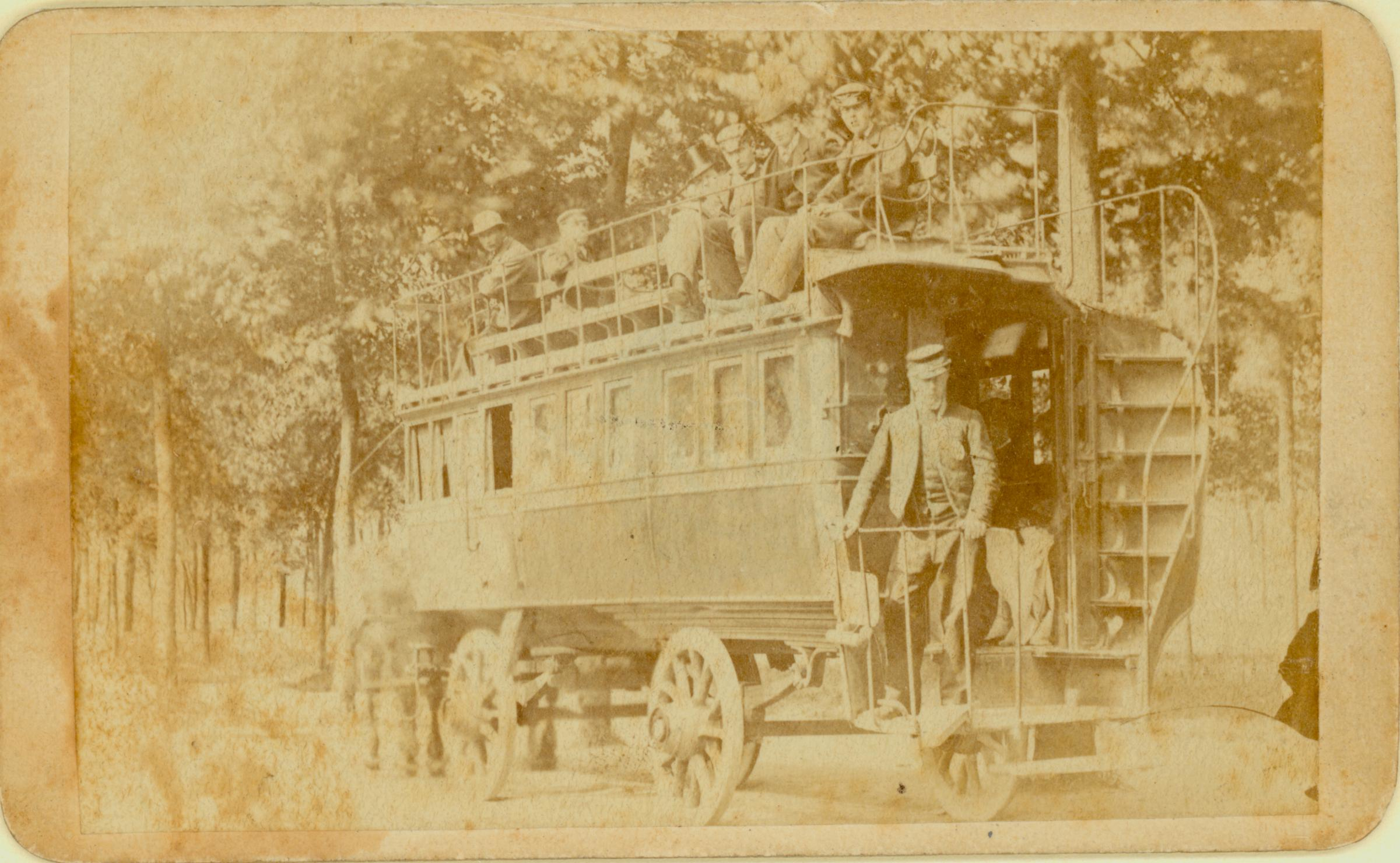 Horsebus Delft - The Hague in the Nederlands. Location Kalverbos, Cemetery in Delft. Original in municipal archive Delft (Stadsarchief Delft): TMS1928. Measurement: 6 x 10 cm.